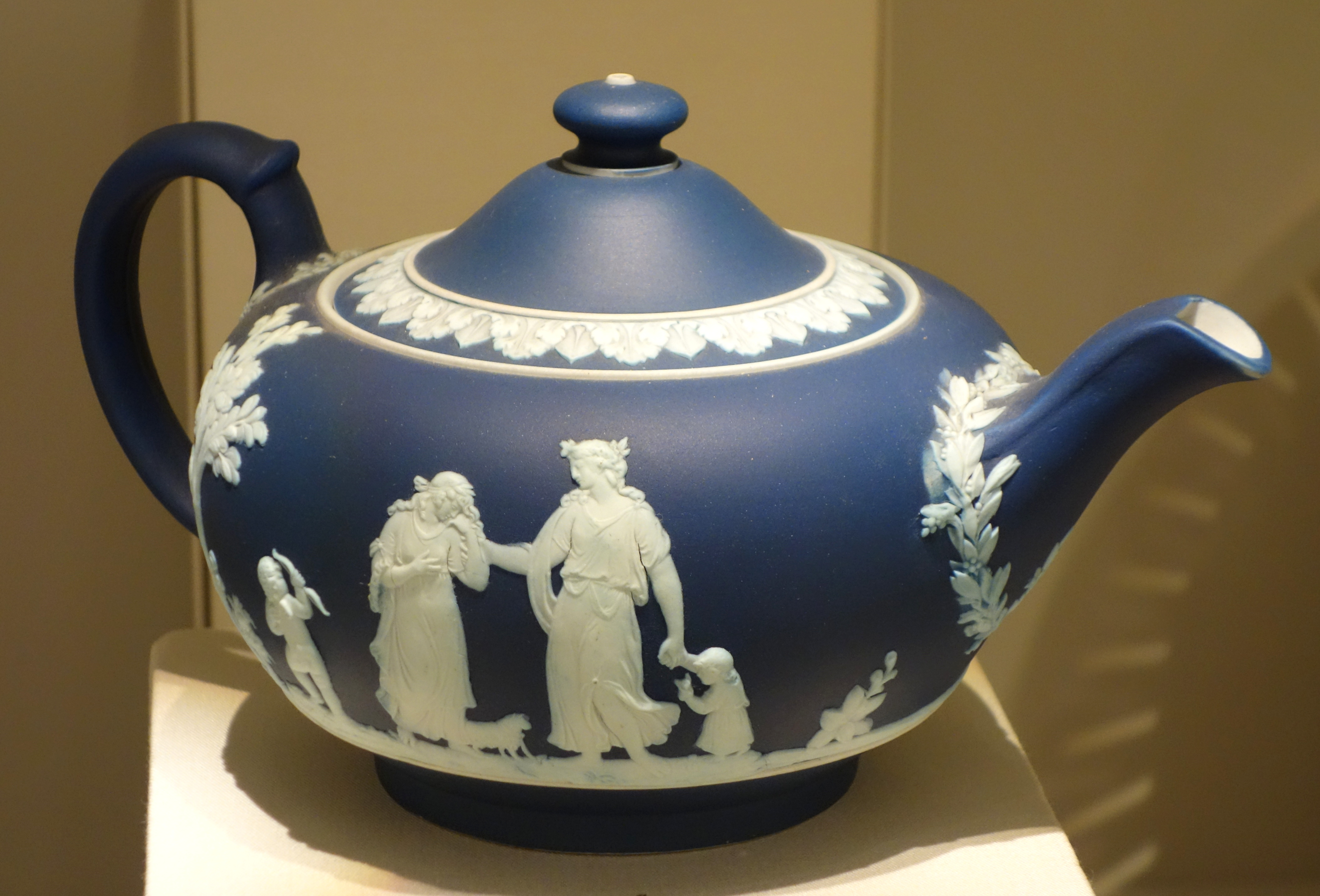 Exhibit in the Chazen Museum of Art, University of Wisconsin-Madison, Madison, Wisconsin, USA. This artwork is old enough so that it is in the public domain.